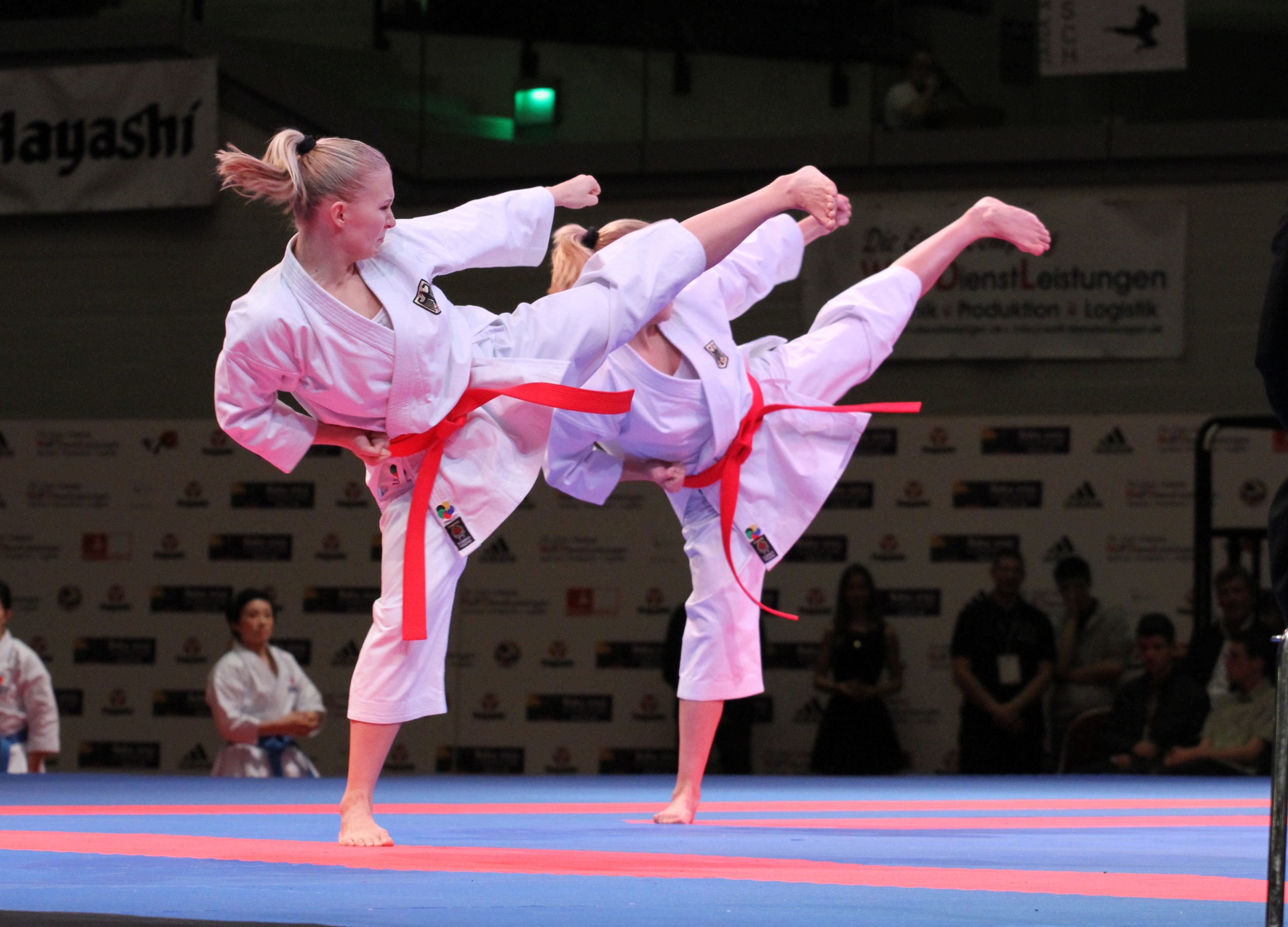 World Champions Germany Kata Female